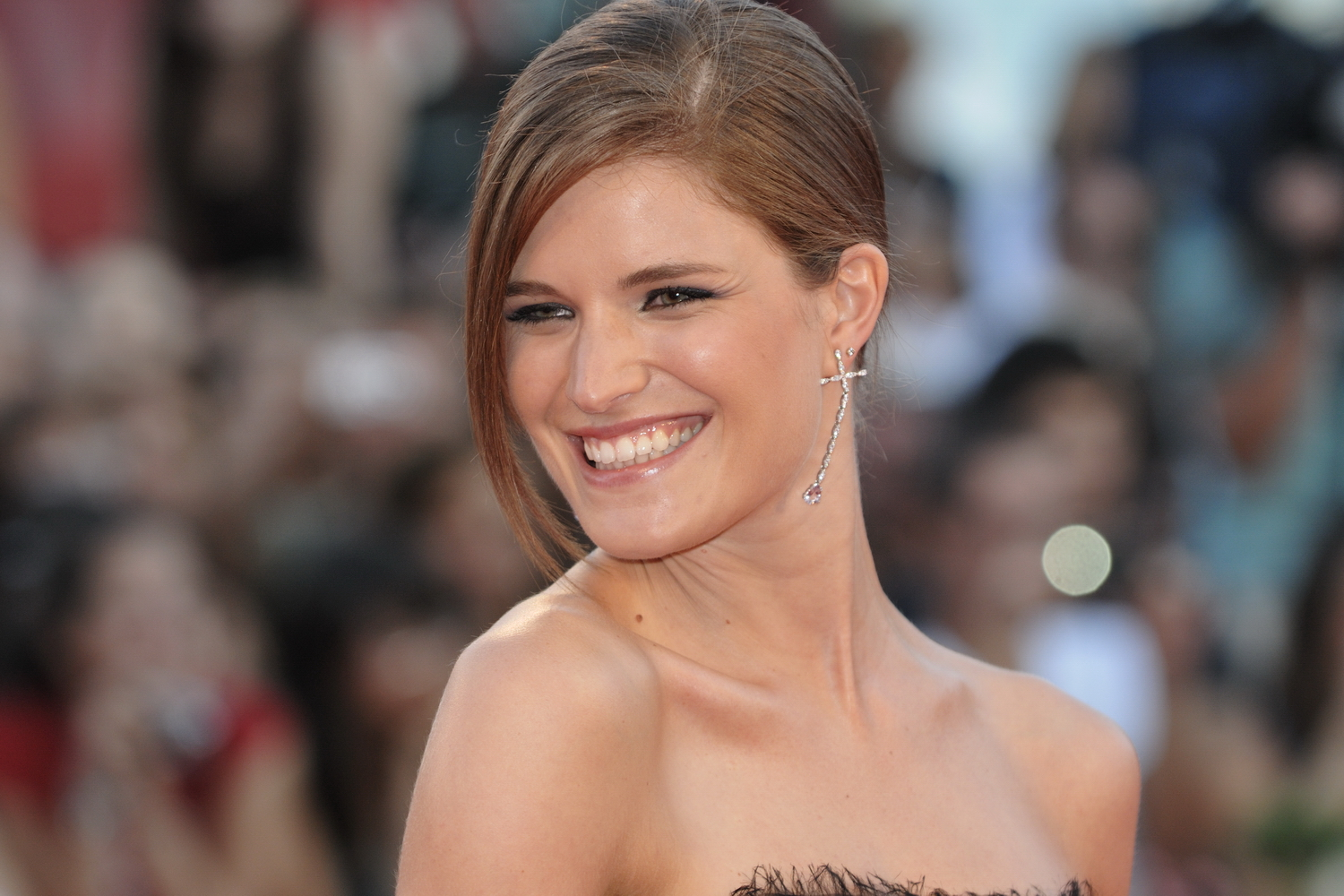 Alessia Piovan at the 66th Venice International Film Festival in 2009, for The Men Who Stare at Goats.